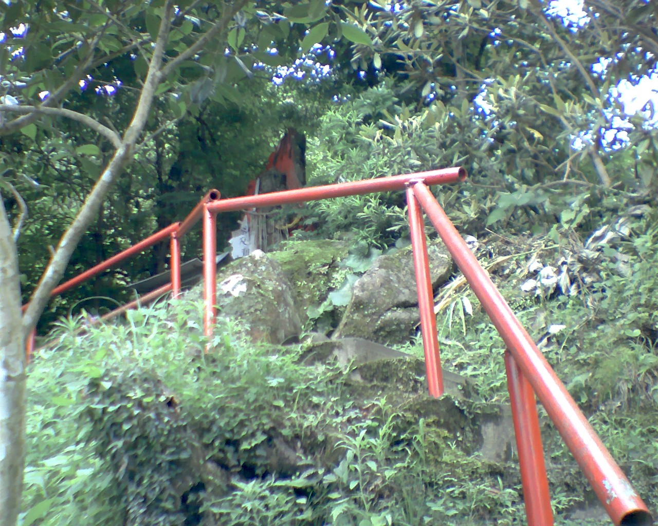 This photograph is a statue named Namikiri Fudō-Myōō (or Namikiri Fudō-Myōō-zou, ja : 波切不動明王) which on a mini temple named 'Hiraharakannondou (or Hirahara Kannon-dou, ja : 平原観音堂)' , in Sasaguri,Fukuoka,Japan and one of a pilgrimage of eighty-eight temples on the "Sasagurishikoku".